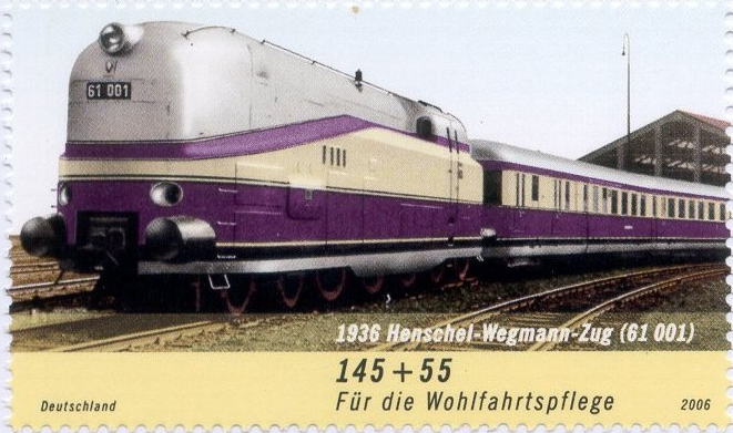 Charity stamp of the Henschel-Wegmann Train, a high-speed train developed by the Deutsche Reichsbahn in Germany.